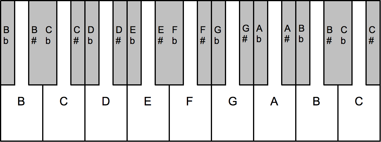 19-tet scale keyboard (63.16 cent steps) after Woolhouse (1835). Easley Blackwood, Jr.'s and Wesley Woolhouse's notation for 19 equal temperament. Intervals are notated similarly to those they are close to and there are no enharmonic equivalents.